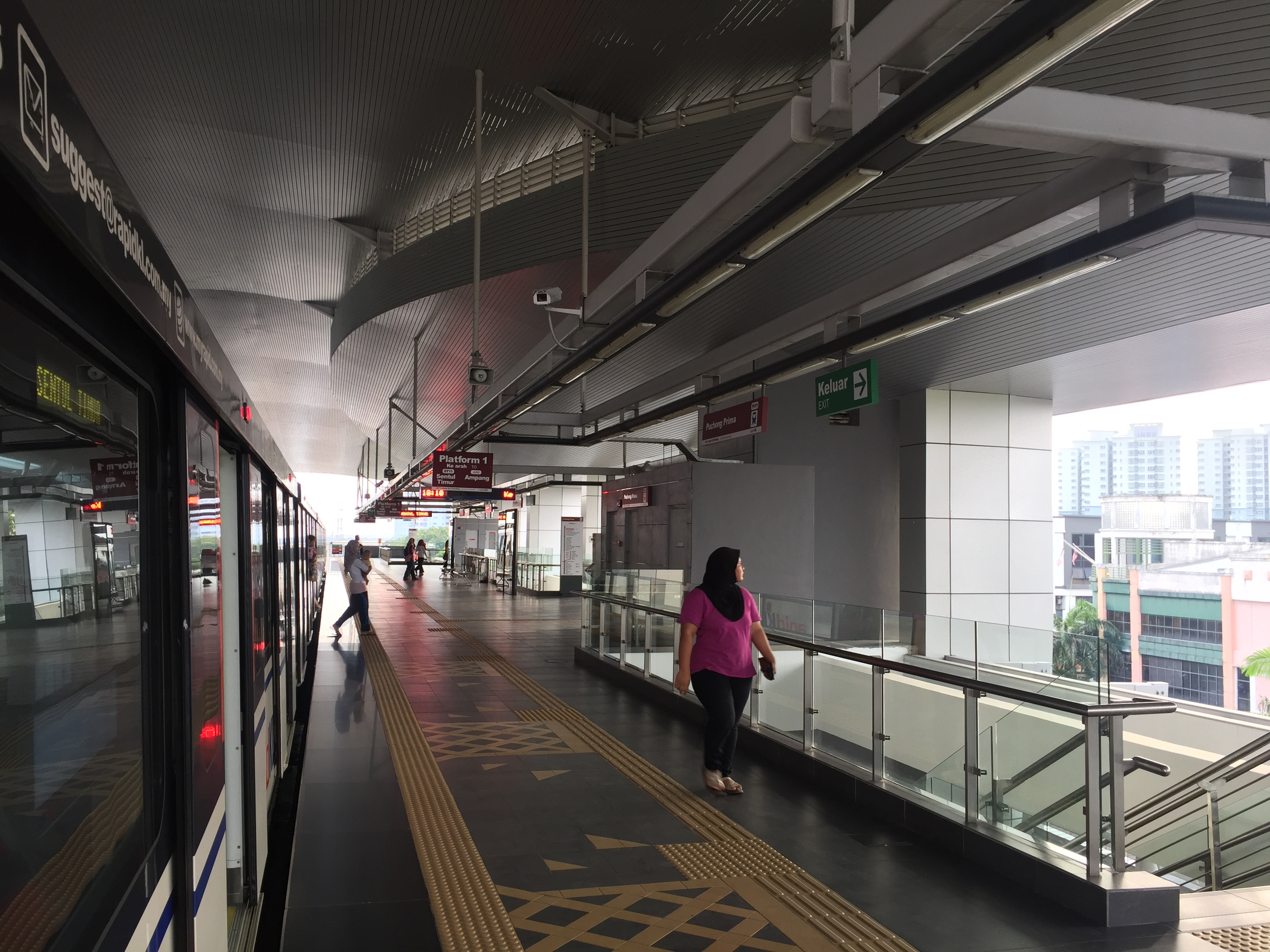 Side platform at Puchong Prima LRT station.